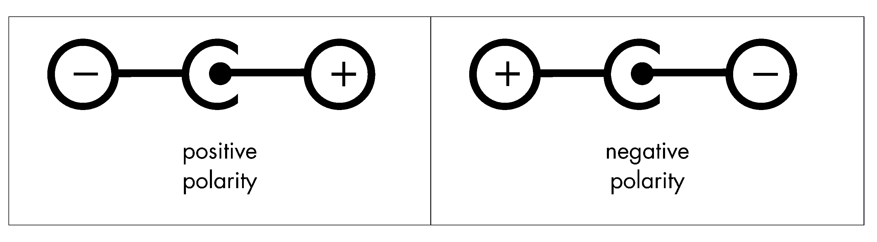 AC adaptor polarity: interpretation of standard symbols.